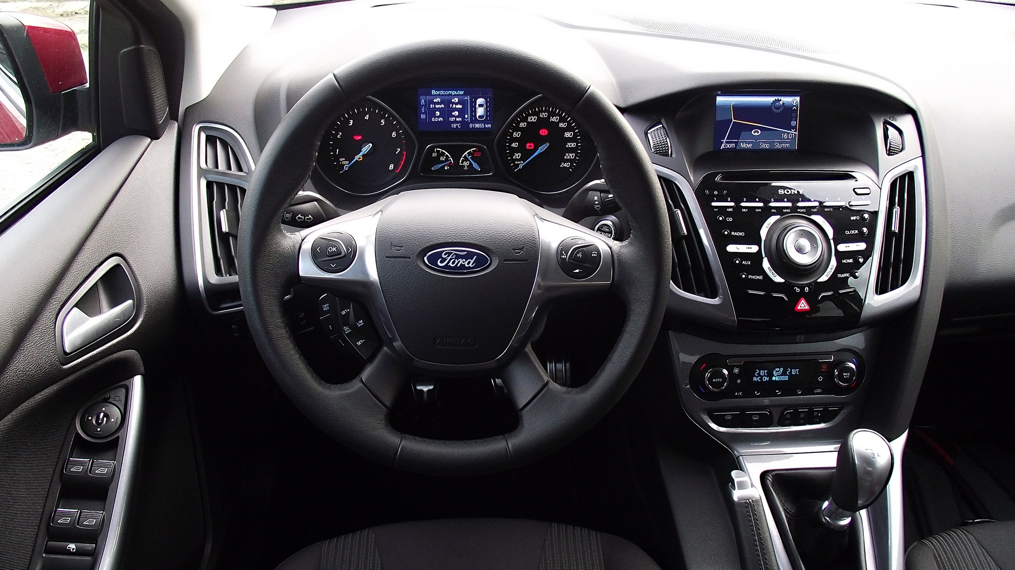 Ford Focus Mk3 Titanium 1.0 EcoBoost 2013 92 kW Cockpit Interior